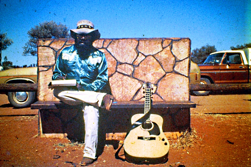 I took this photo in 1983 at Uluru, NT